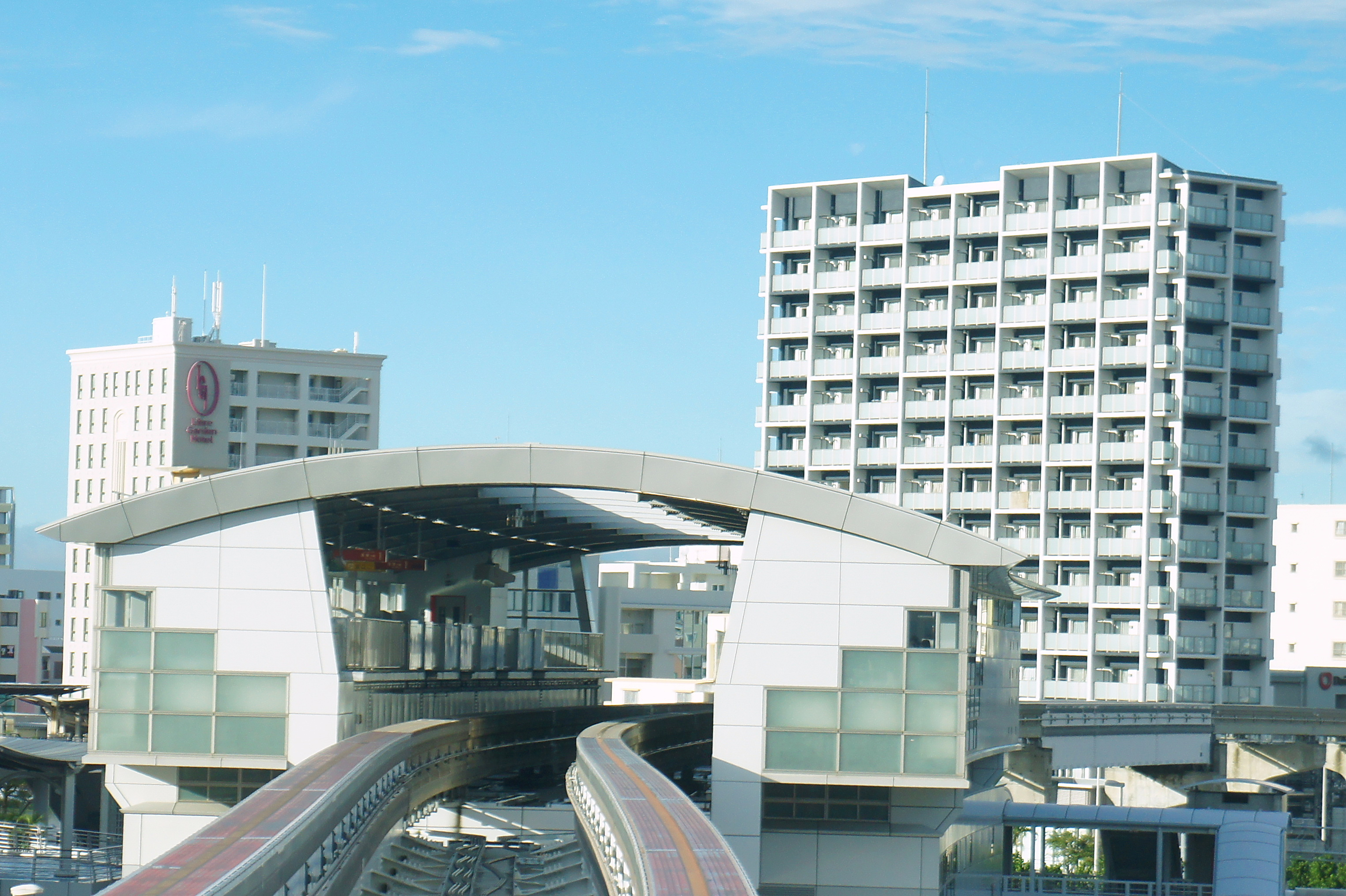 Okinawa City Monorail Line (Yui Rail) Omoromachi Station (Okinawa)